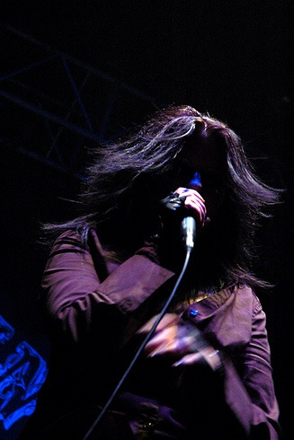 Singer Tairrie B of the band My Ruin performing in Inverness, Scotland in 2008. Photograph by Danny Crombie (